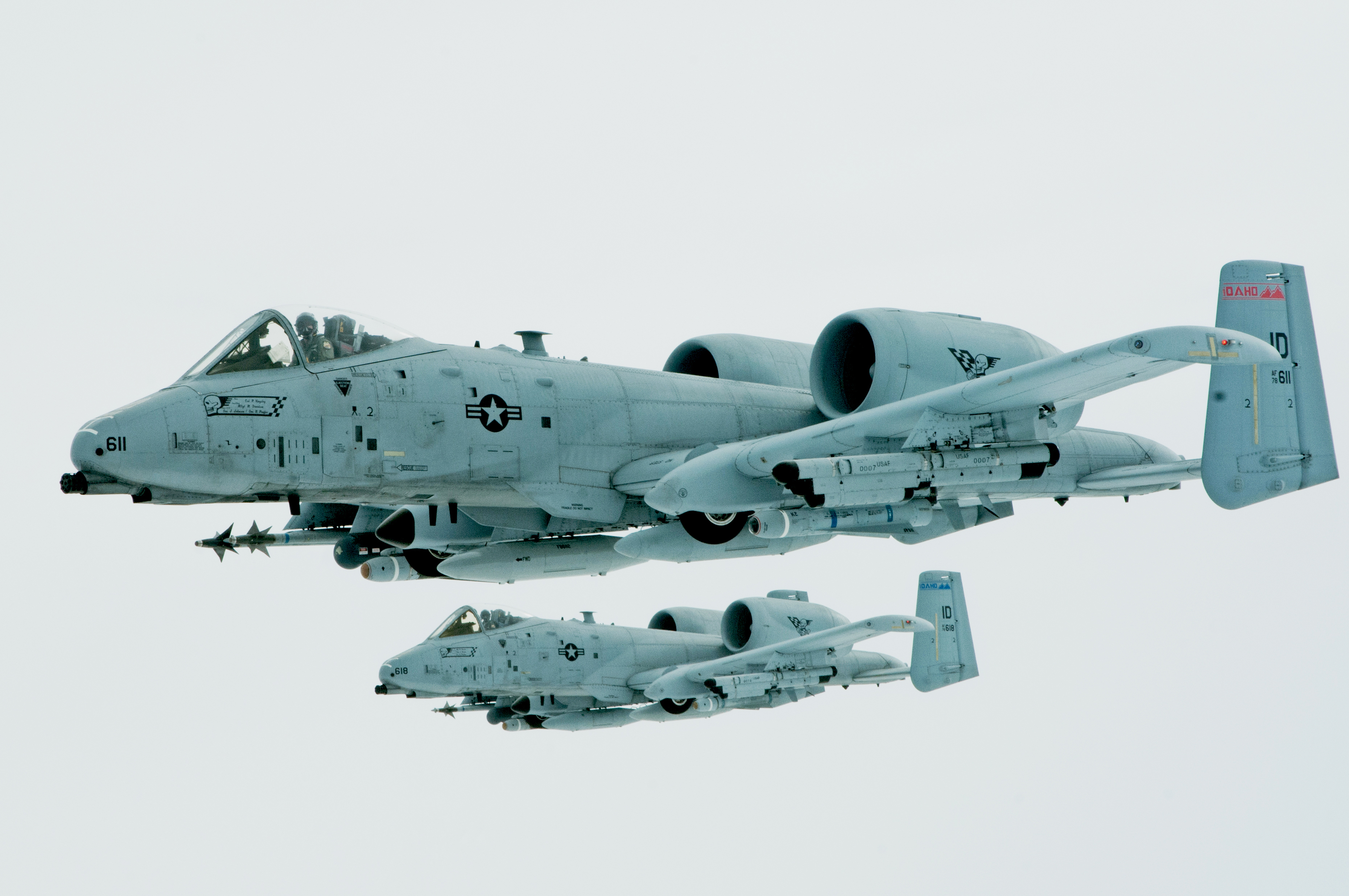 First Lt. Micha Stoddard, flying the lead aircraft, and his wingman, Capt. Casey Peasley, fly their A-10 Thunderbolt IIs in an echelon formation March 26, 2014, enroute from Barksdale Air Force Base, La., to their home base in Boise, Idaho. The crews performed an in-air refueling with a Utah National Guard KC-135 Stratotanker after the air combat exercise Green Flag East. Stoddard and Peasley are assigned to the 190th Fighter Squadron.